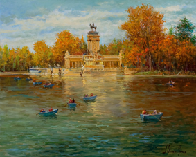 Cuadro al oleo de JOSE SUAREZ GOMEZ